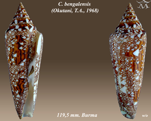 Conus bengalensis 1